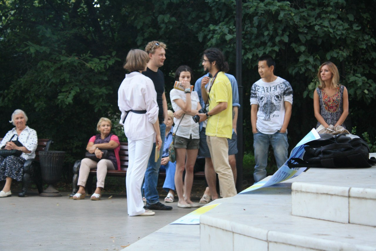 Перед ивентом